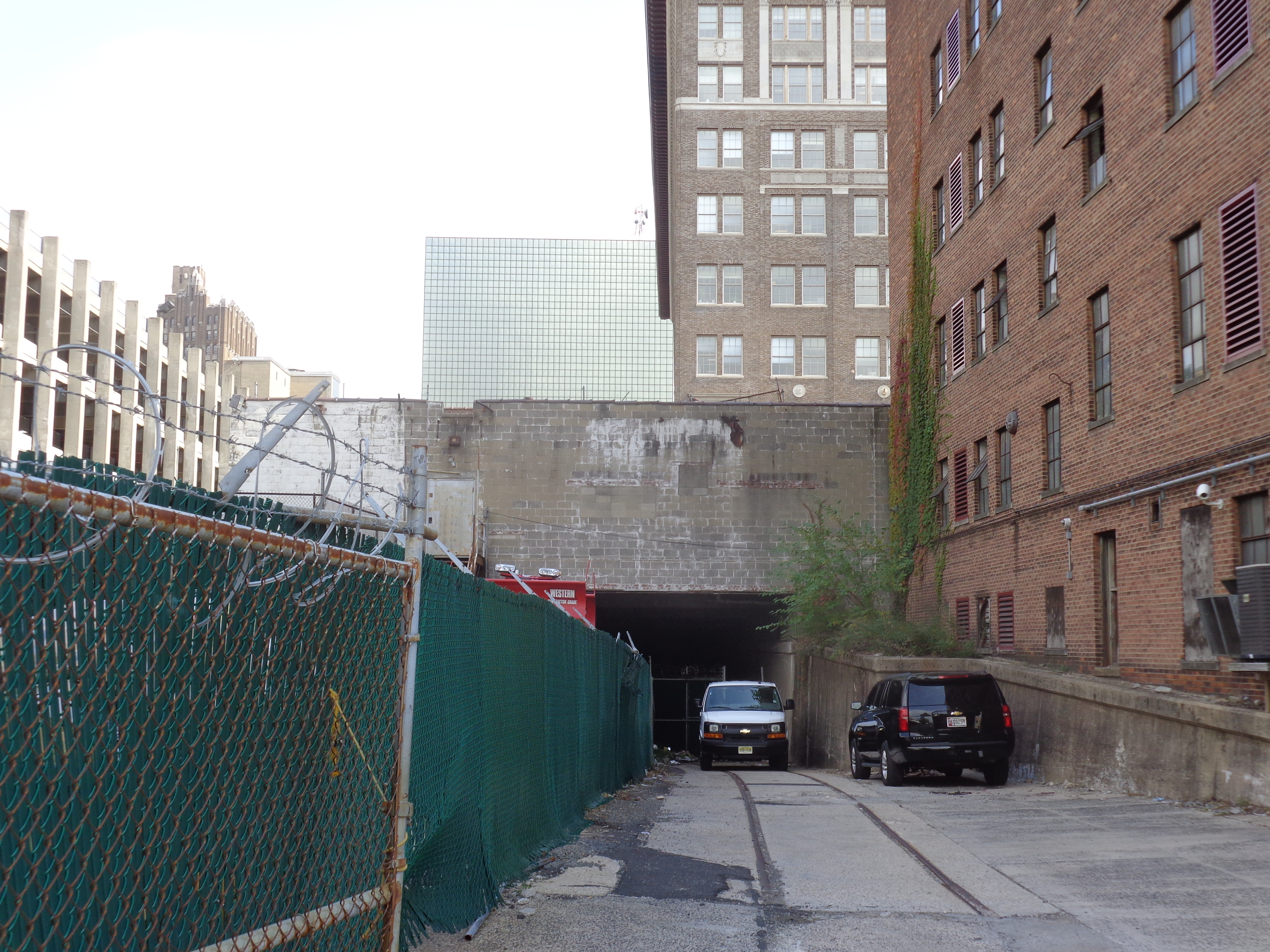 Cedar Street Subway at Washington Street Newark with PSEG Headquarters, site of the Public Service Terminal in background